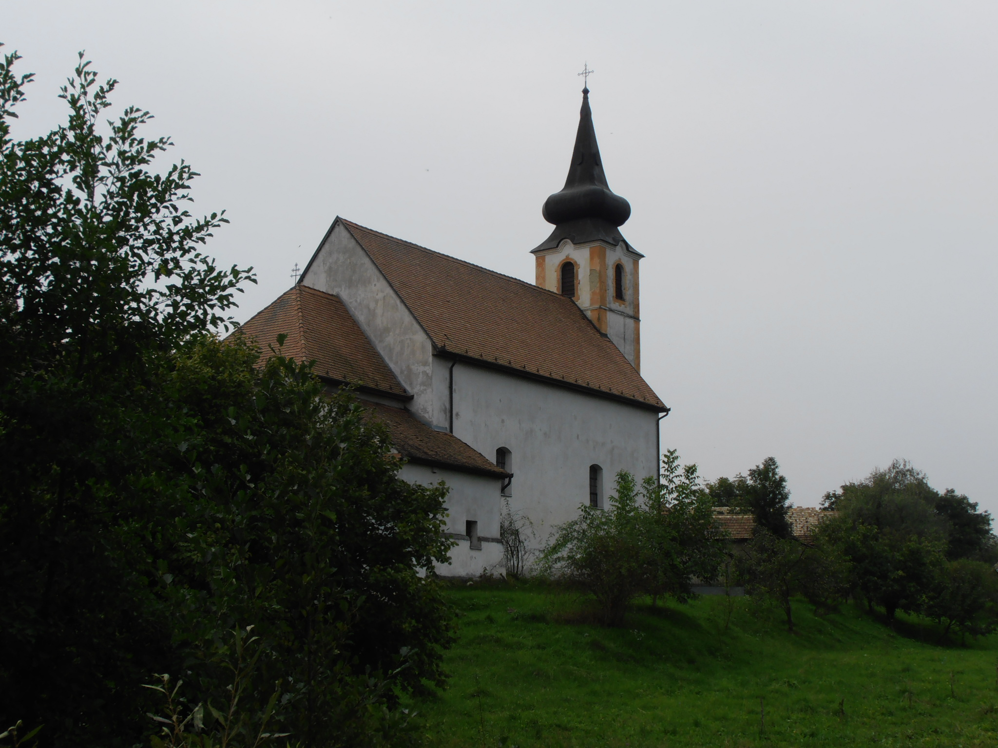 Catholic church in Terény, Hungary A terényi Árpád-házi Szt. Erzsébet katolikus templom